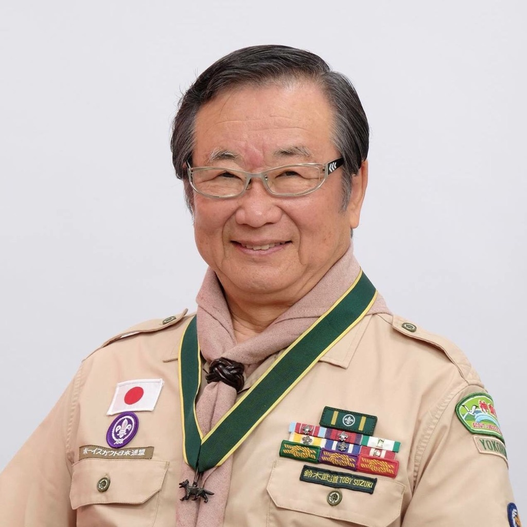 Bronze Wolf recipient Toby Suzuki in Scout uniform, 2018